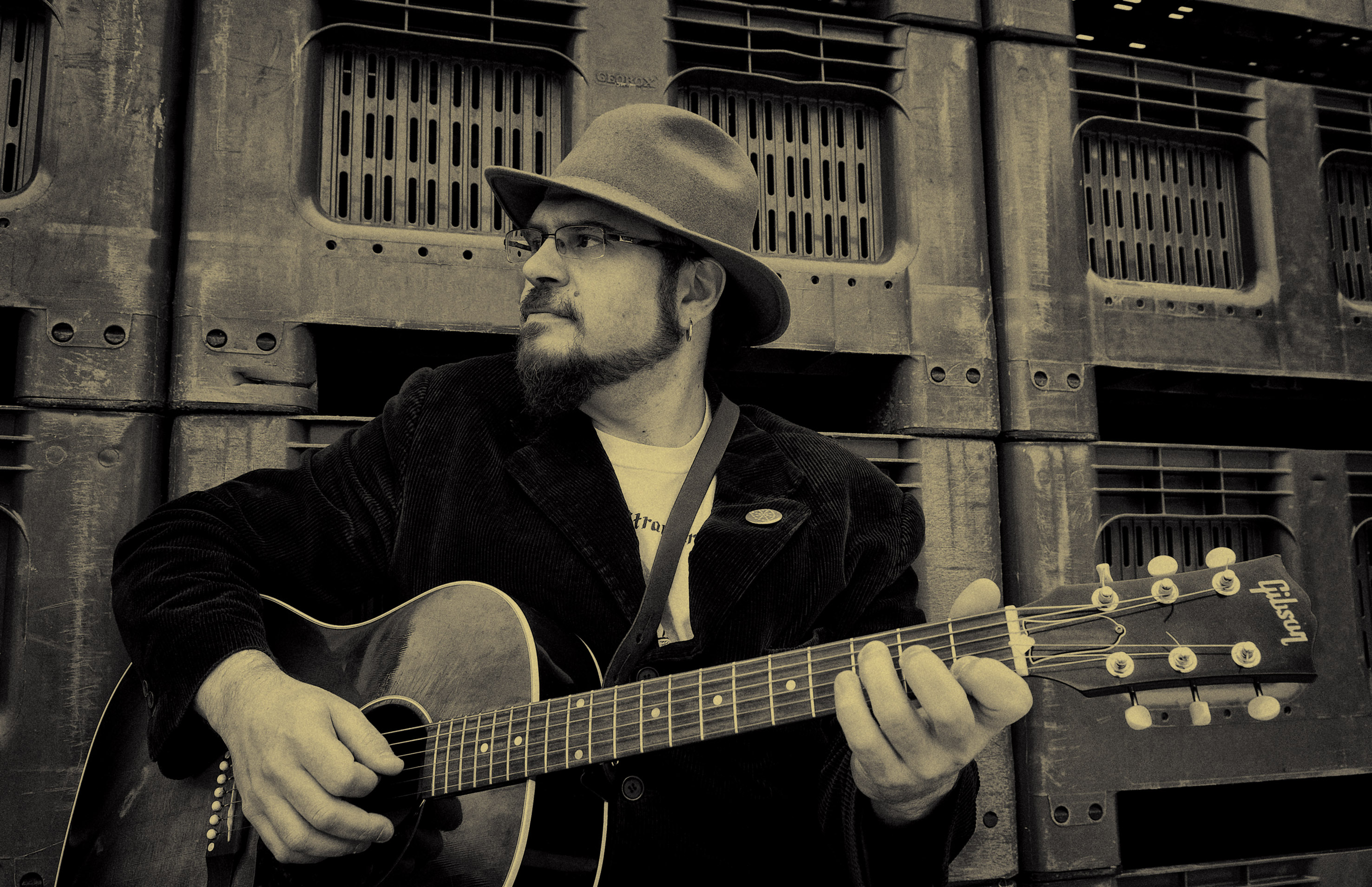 Picture by J.A. Areta Goñi (JUXE)